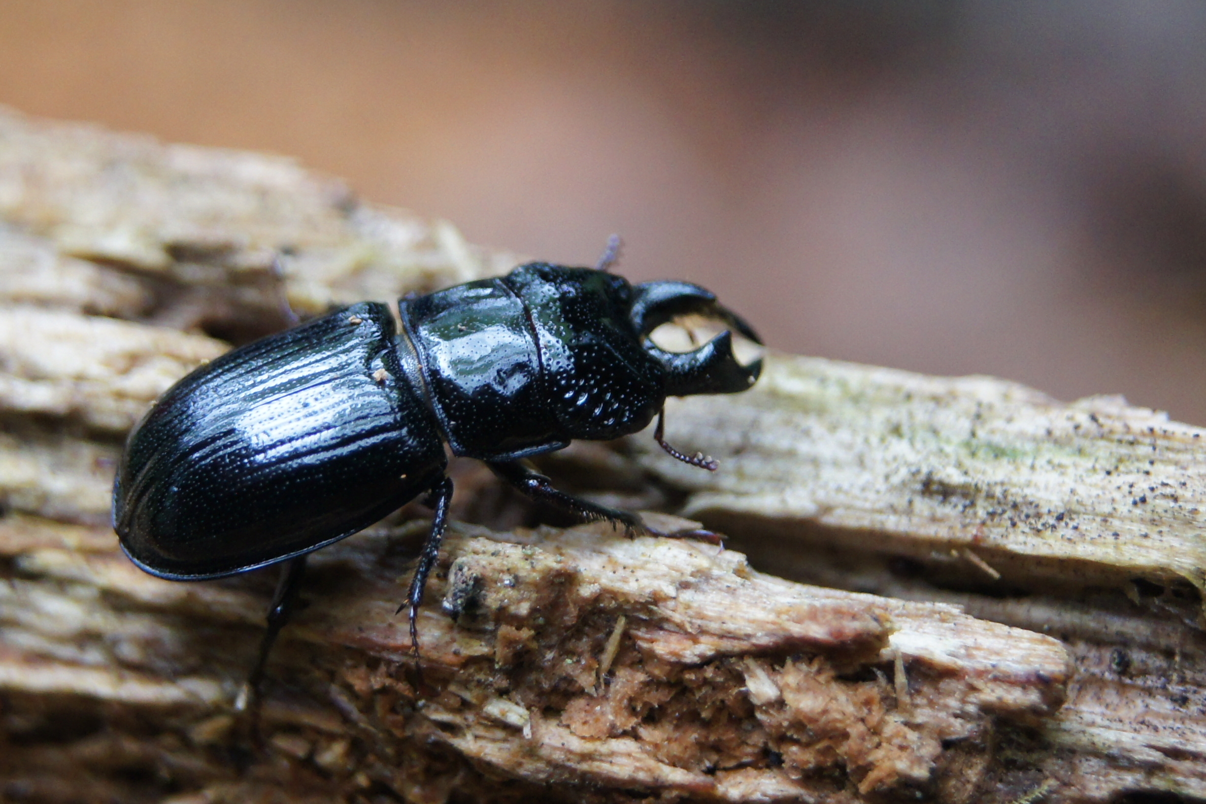 Ceruchus chrysomelinus at Punios šilas